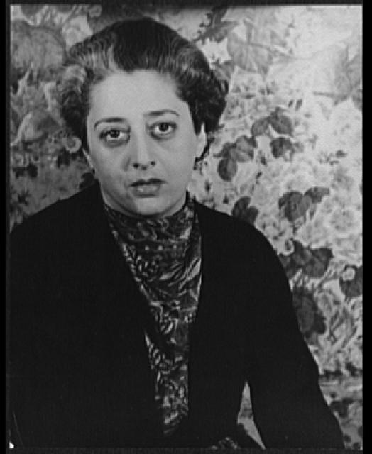 Title: Portrait of Beatrice Kaufman Abstract/medium: 1 photographic print : gelatin silver.